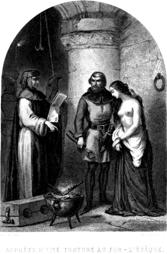 At the Ready for Torture at the For-l'Évêque Prison